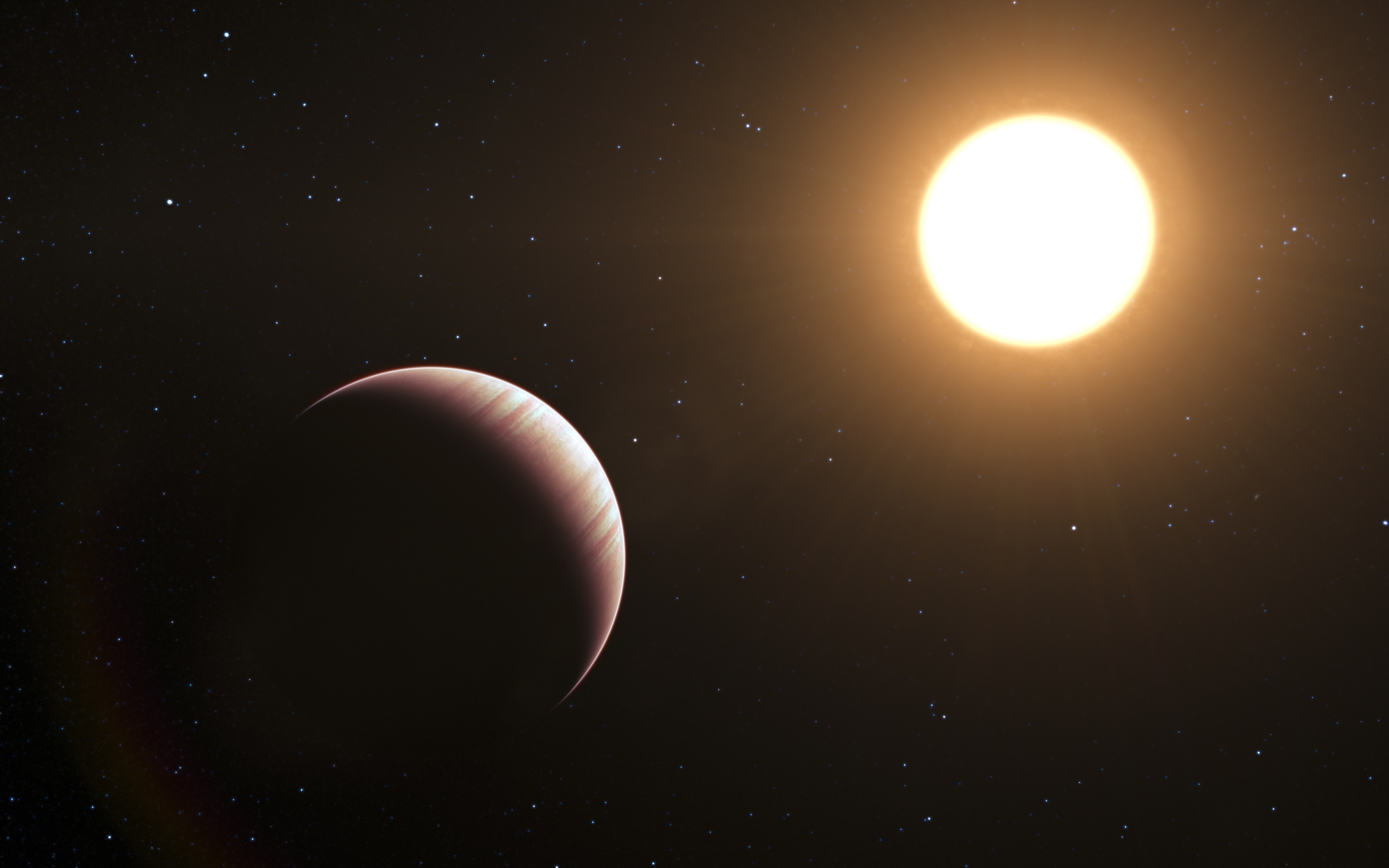 This artist’s impression shows the exoplanet Tau Boötis b. This was one of the first exoplanets to be discovered back in 1996, and it is still one of the closest planetary systems known to date. Astronomers using ESO’s Very Large Telescope have now caught and studied the faint light from the planet Tau Boötis b for the first time. By employing a clever observational trick the team find that the planet’s atmosphere seems to be cooler higher up, the opposite of what was expected.